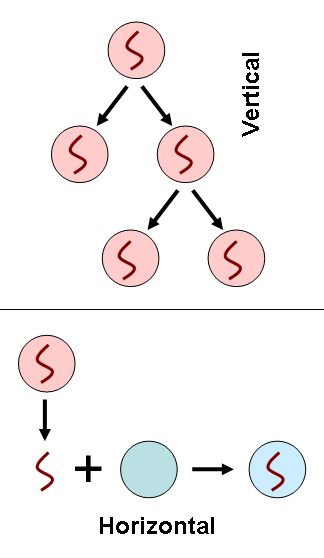 Horizontal and vertical gene transfer